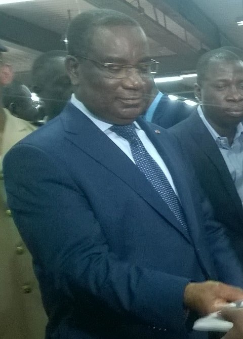 Cropped photograph of Komi Sélom Klassou at the International Education Fair in Lomé in April 2017